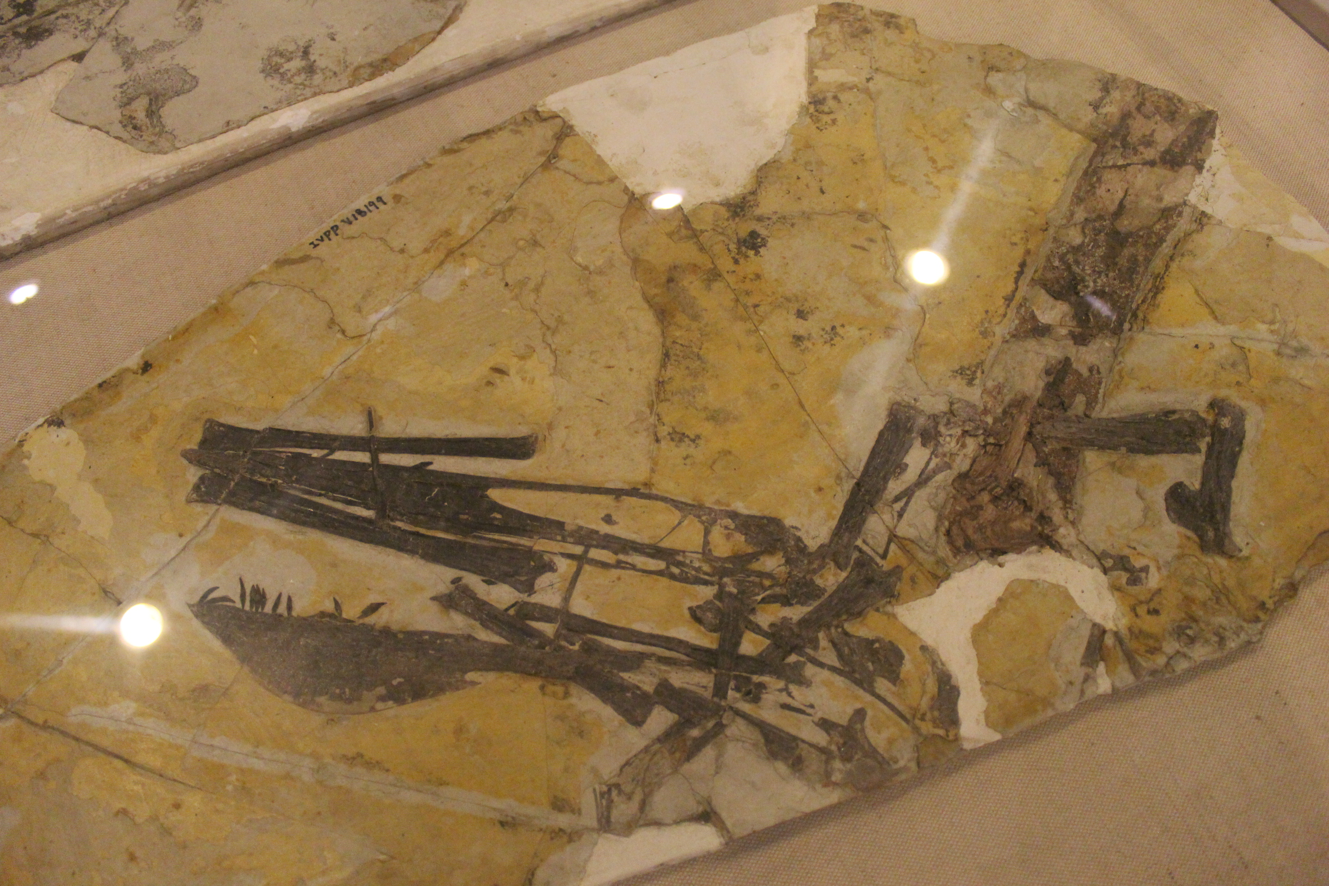 Holotype of Ikrandraco avatar on display at the Paleozoological Museum of China.